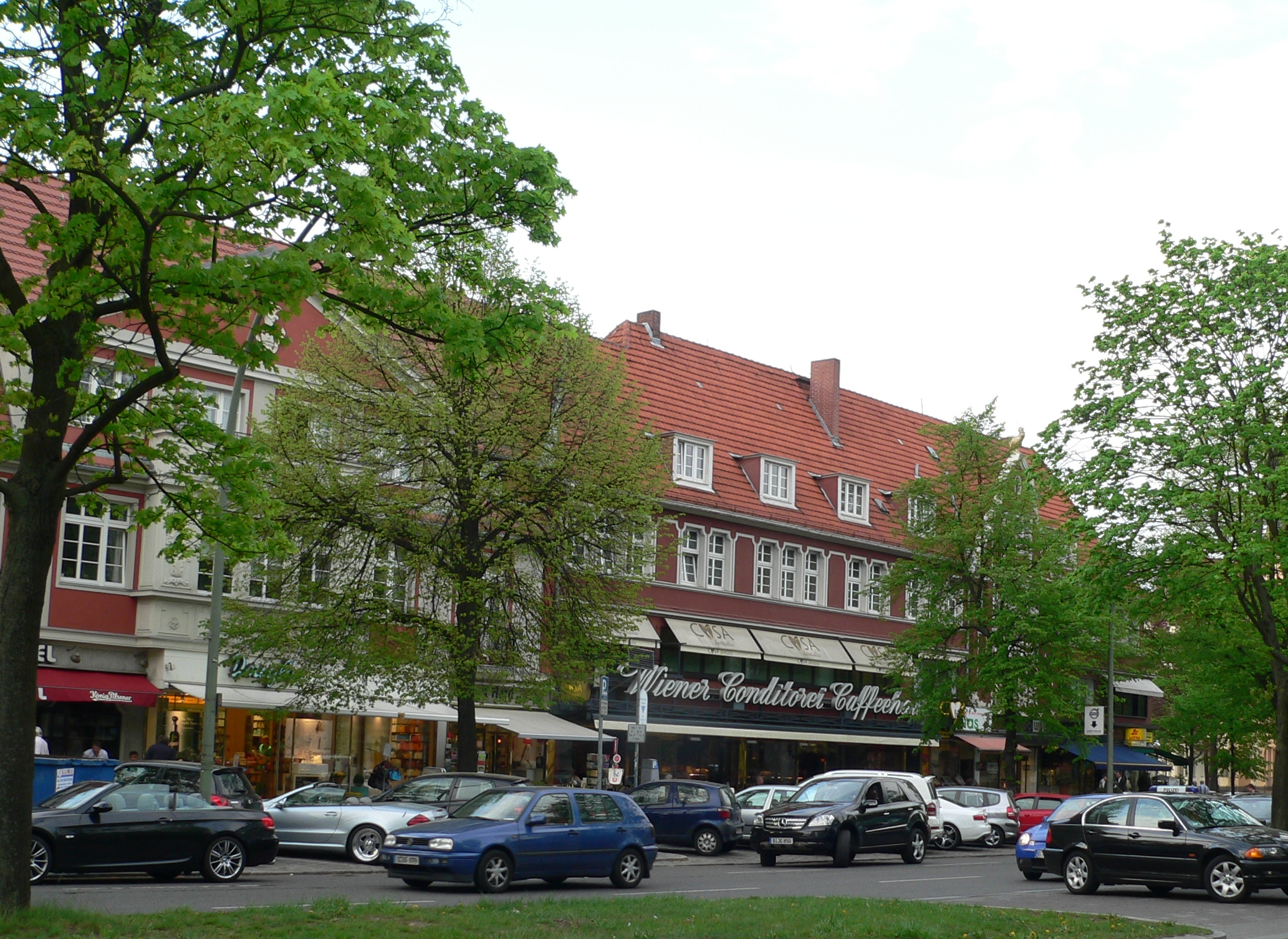 Berlin-Schmargendorf Hohenzollerndamm Café Wiener Conditorei